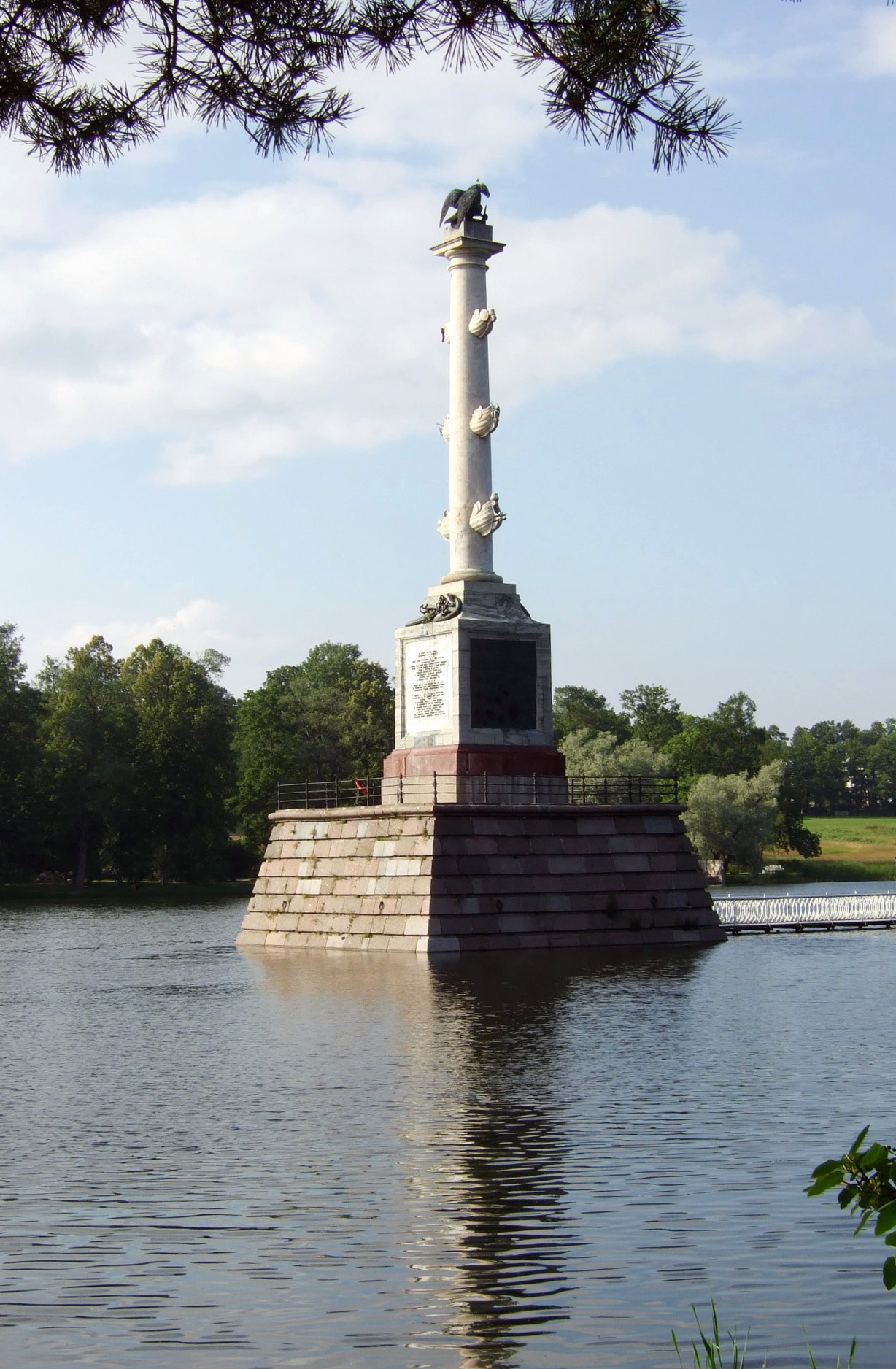 Chesme Column in the Catherine Park of Tsarskoe Selo. A recast version of Image:Chesme column.JPG, by User:Alex Bakharev